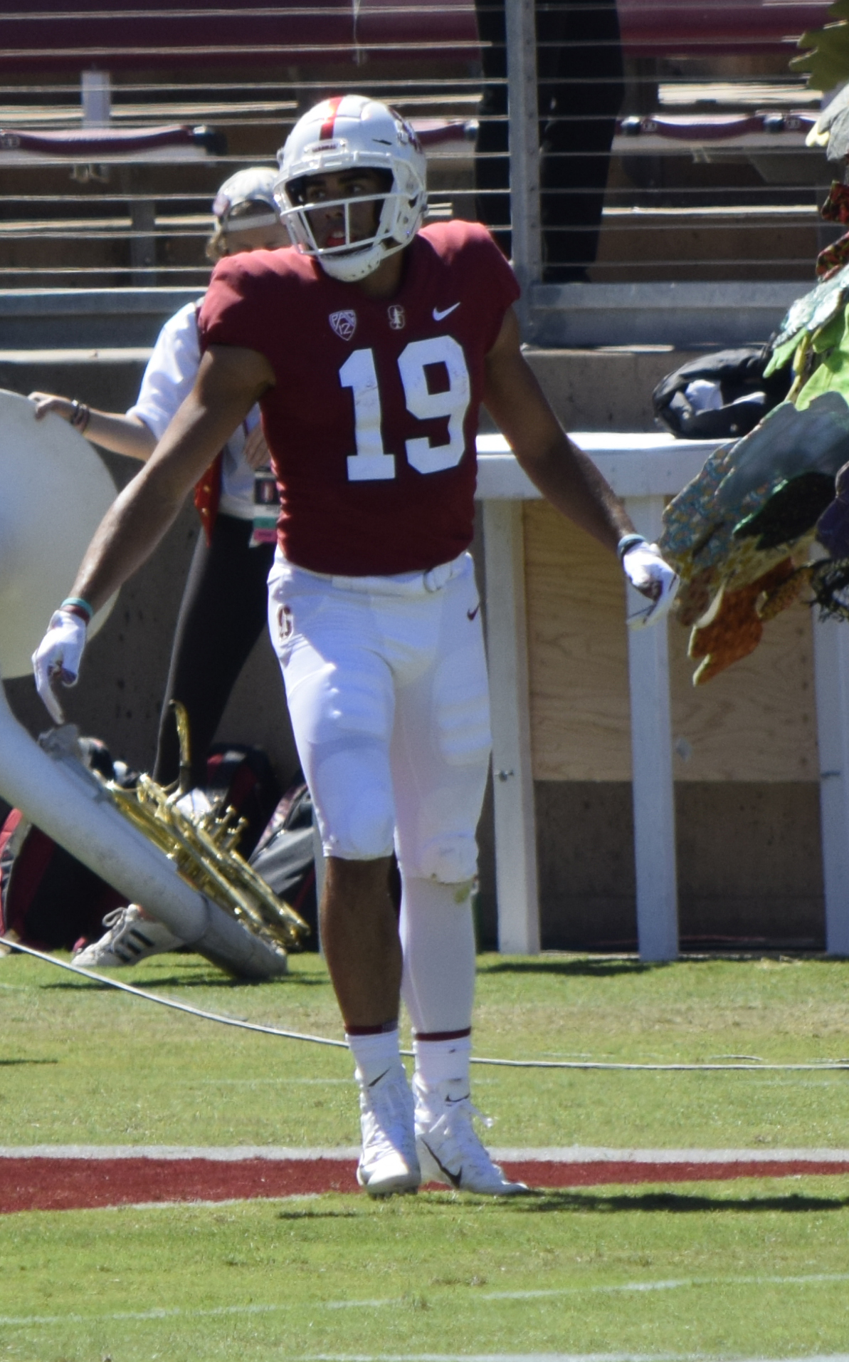 Stanford 30 UC Davis 10